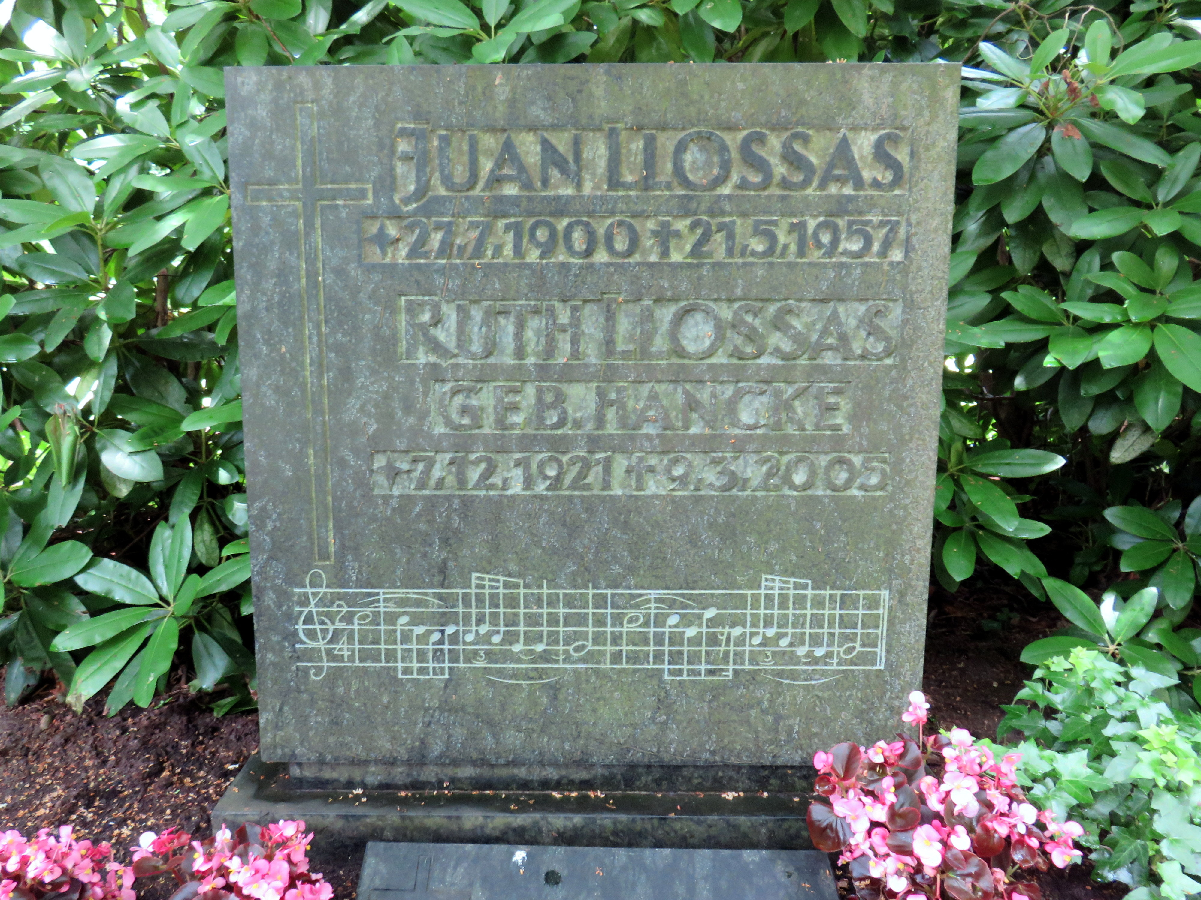 Grave for the Spanisch musician Juan Llossas at Ohlsdorf Cemetery in Hamburg-Ohlsdorf, map K 18 (opposite chapel 3 / Oberstraße).